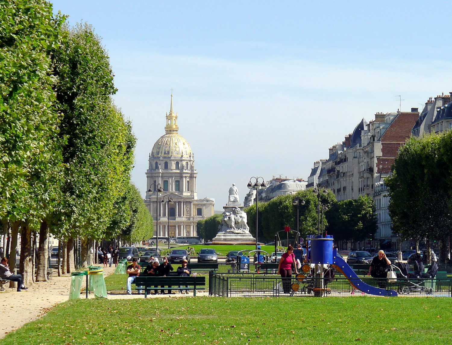 Breteuil avenue (garden) - Paris